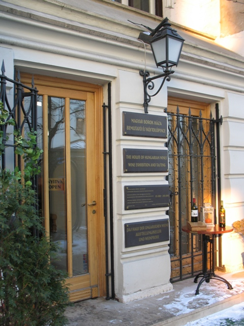 House of Hungarian Wines. Entrance